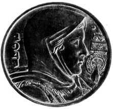 Banknote of 1 kn (1941), proof. Back side.